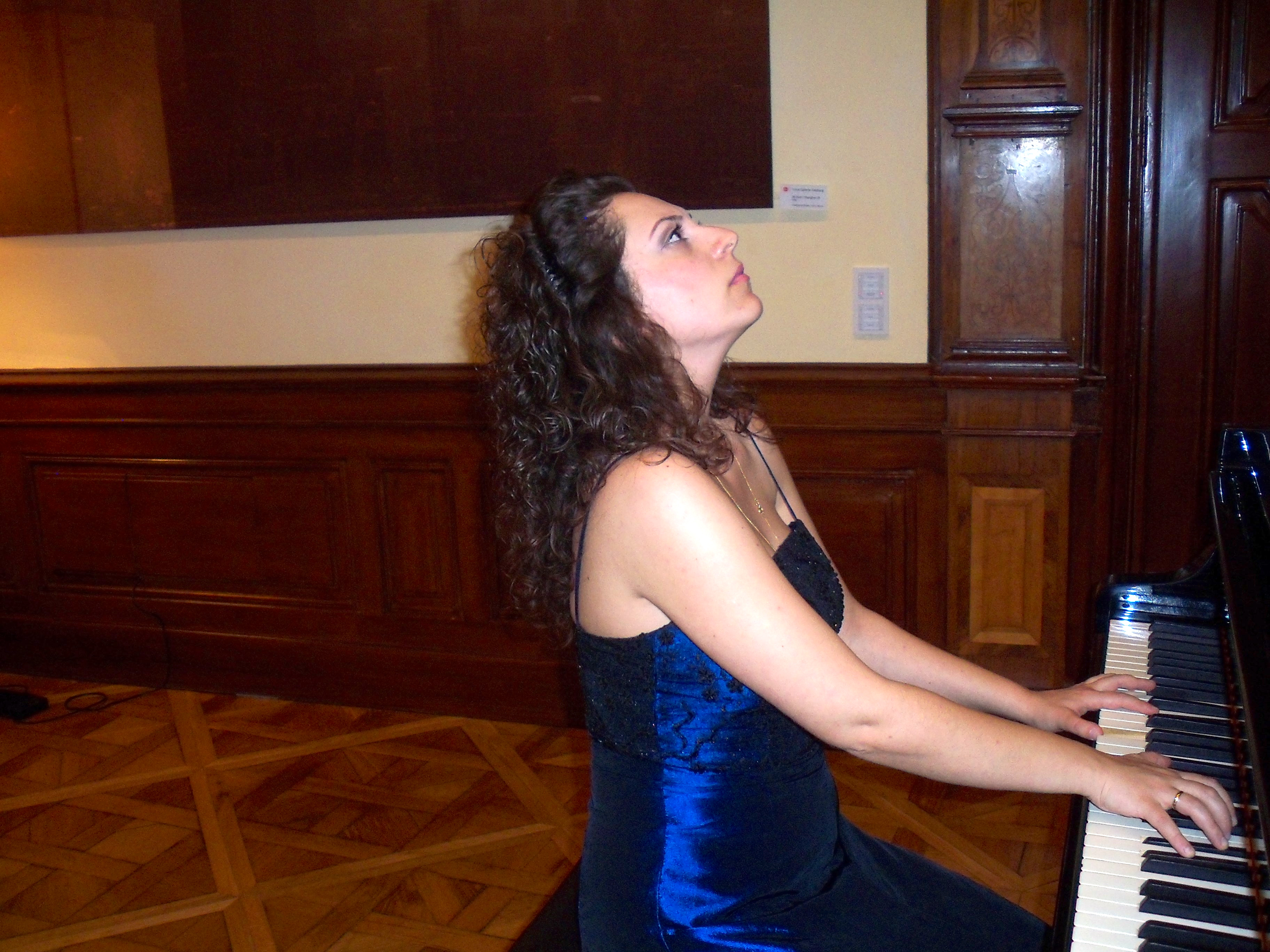 Photo of Heghine